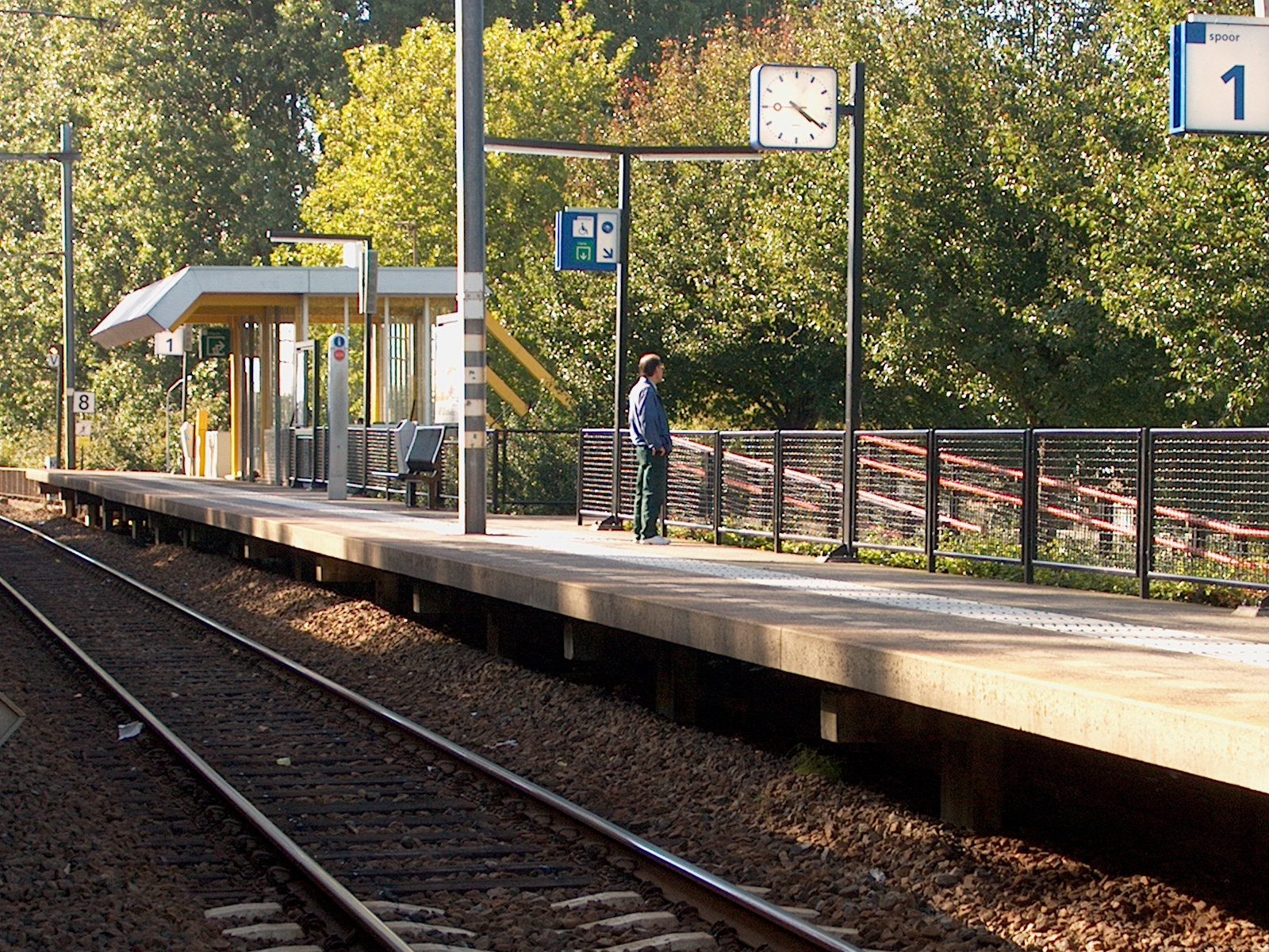 Station Zaandam Kogerveld, The Netherlands